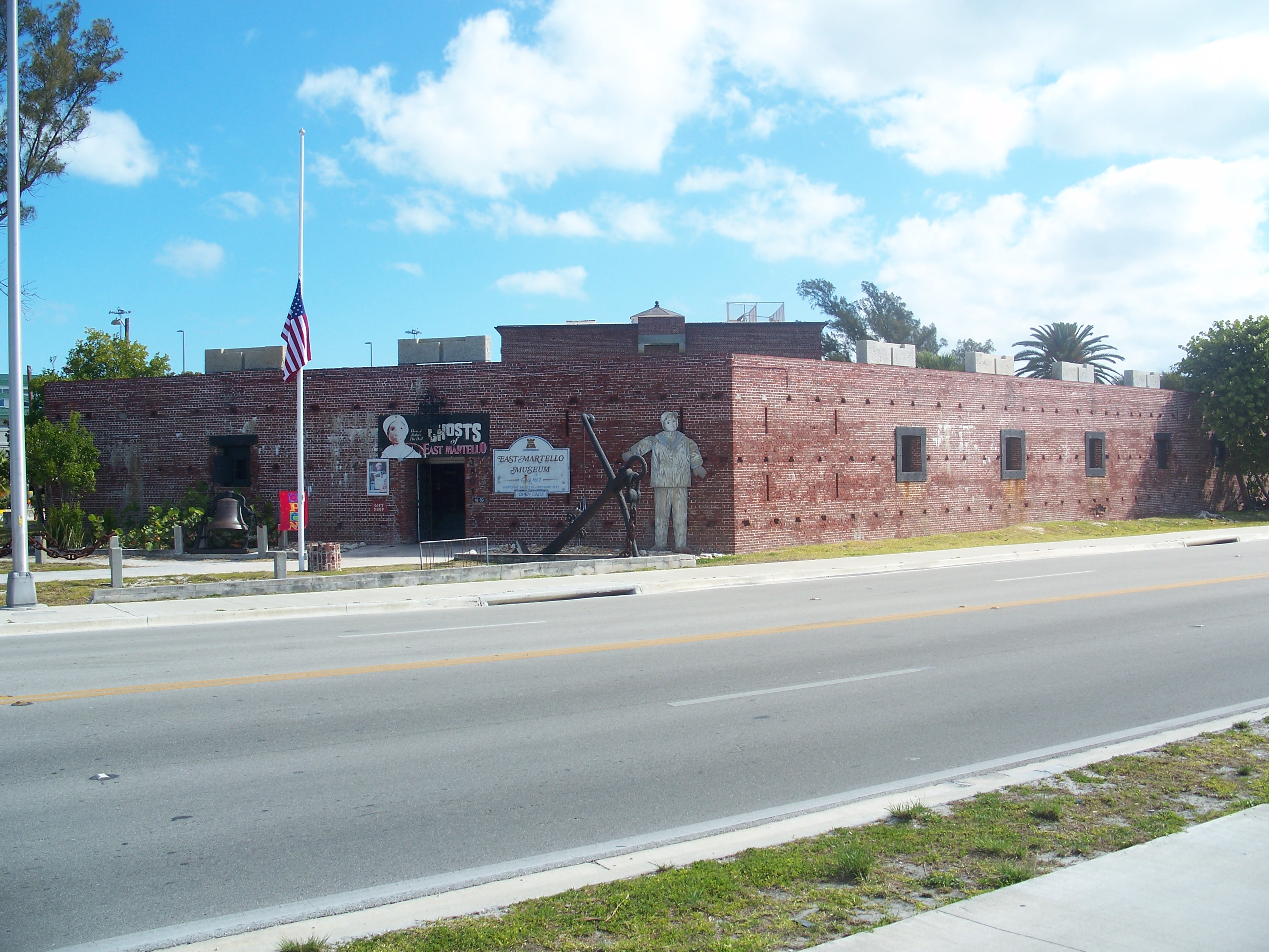 Key West, Florida: Martello Gallery-Key West Art and Historical Museum